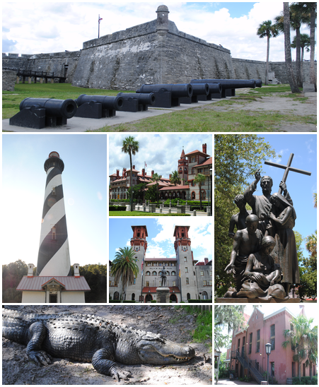 Collection of photos I took around St. Augustine, Florida